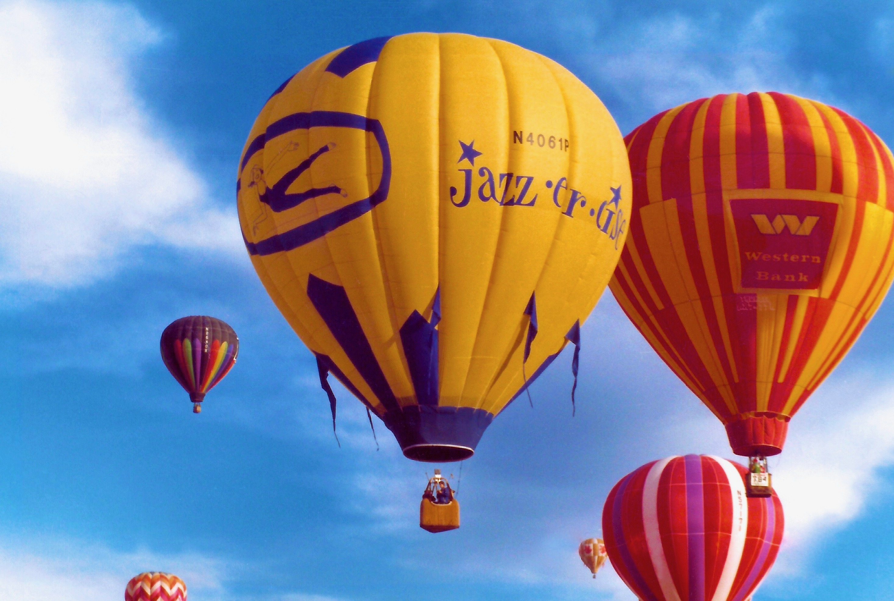 Jazzercise Balloon owned and piloted by Linda Doherty out of Albuquerque, NM.